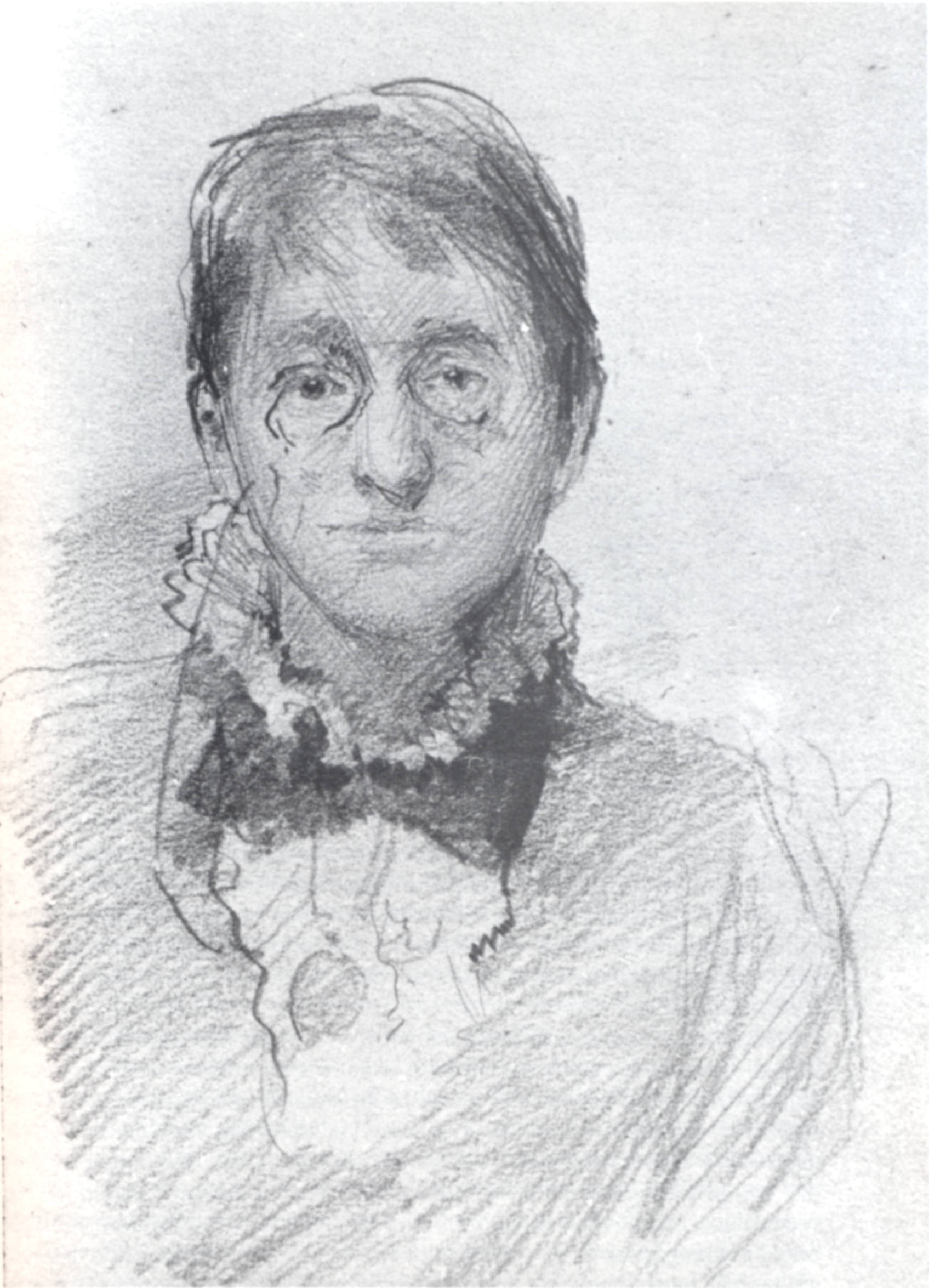 Sarah Purser as drawn by John Butler Yeats in the early 1880s